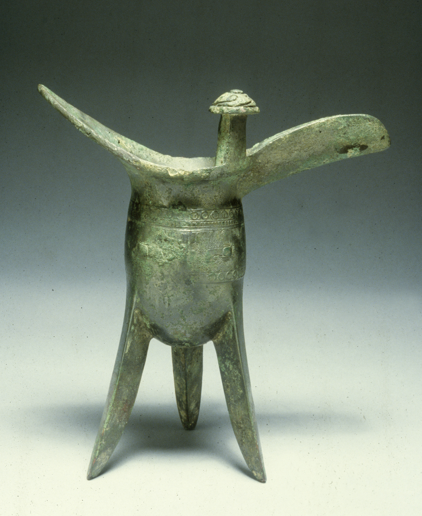 The short inscription under the handle indicates that the vessel was made in memory of a male ancestor. The decoration is in low relief and incised.